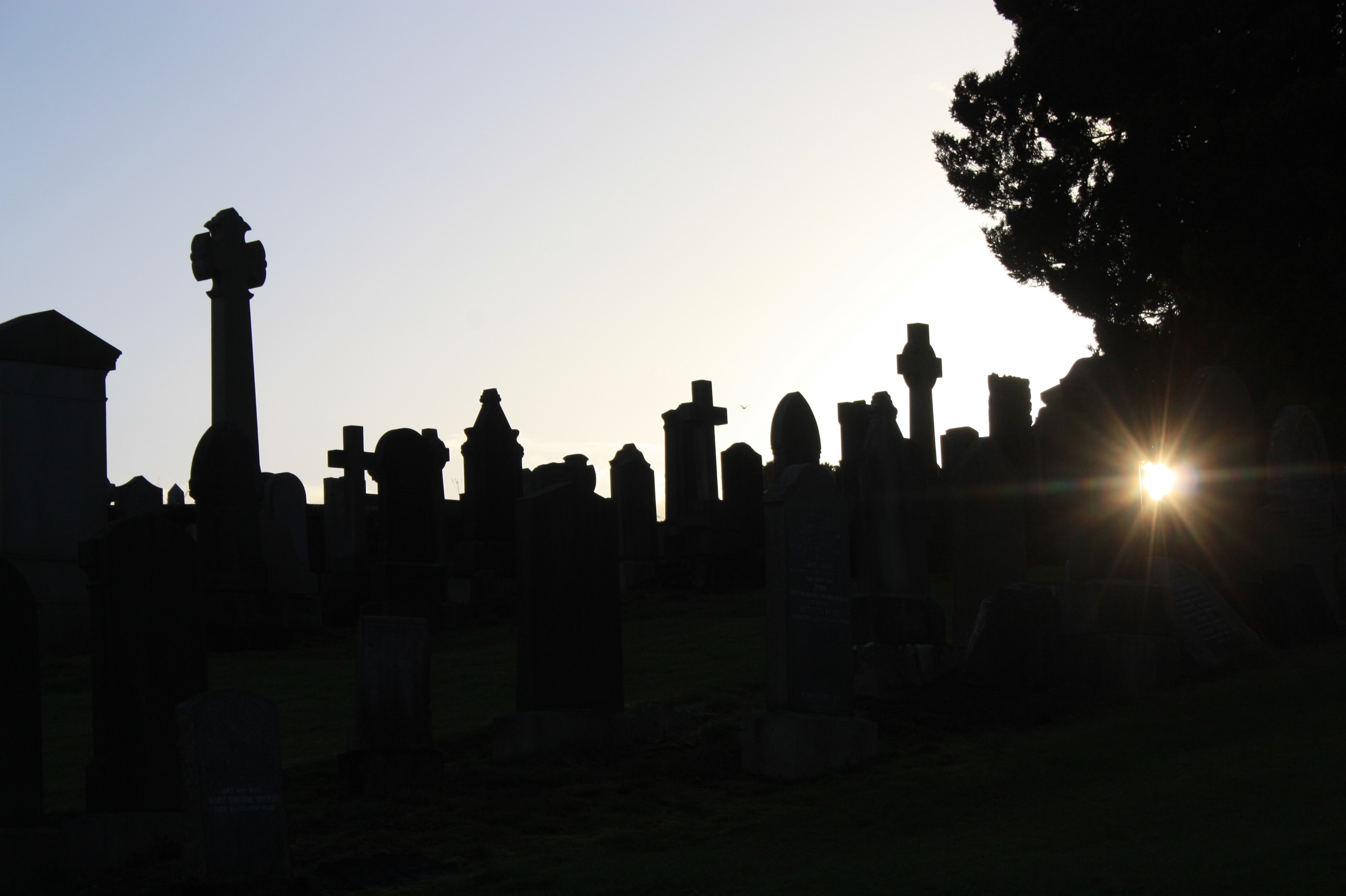 Silhouetted stones at sunset in Wellshill Cemetery, Perth